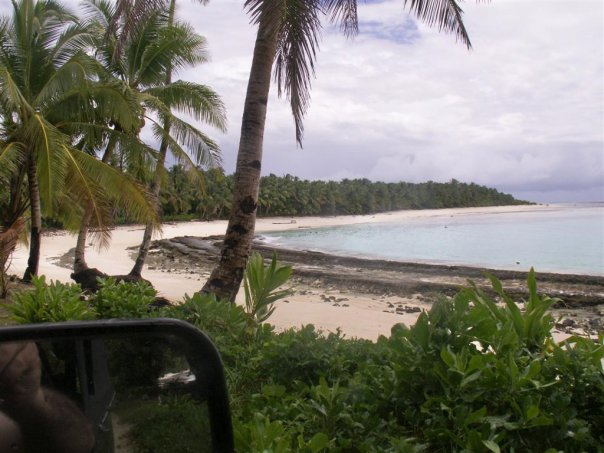 Photo of MMofmanu Beach, Rotuma